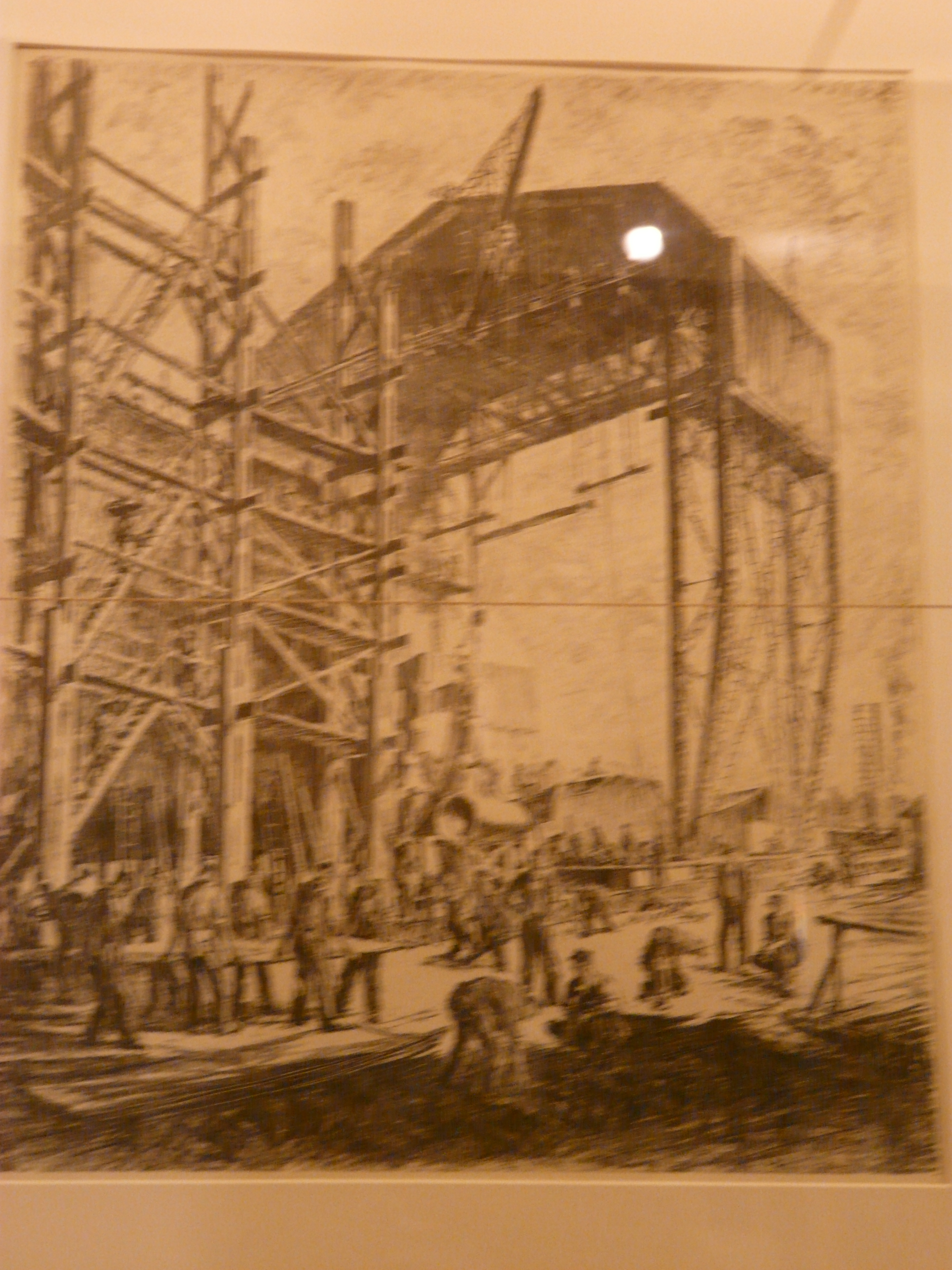 "The Gantry, Sun Ship Yard." Herbert Pullinger (1879-1961). Philadelphia. Lithograph. 1917. Independence Seaport Museum